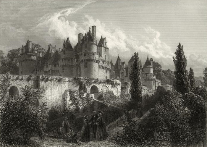 Engraving of the Château d'Ussé, Indre-et-Loire, France